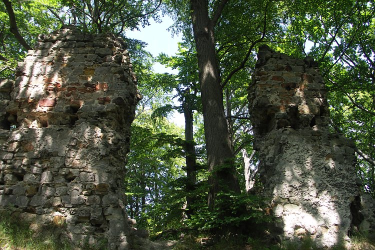 Castle Devin, Czech Republic